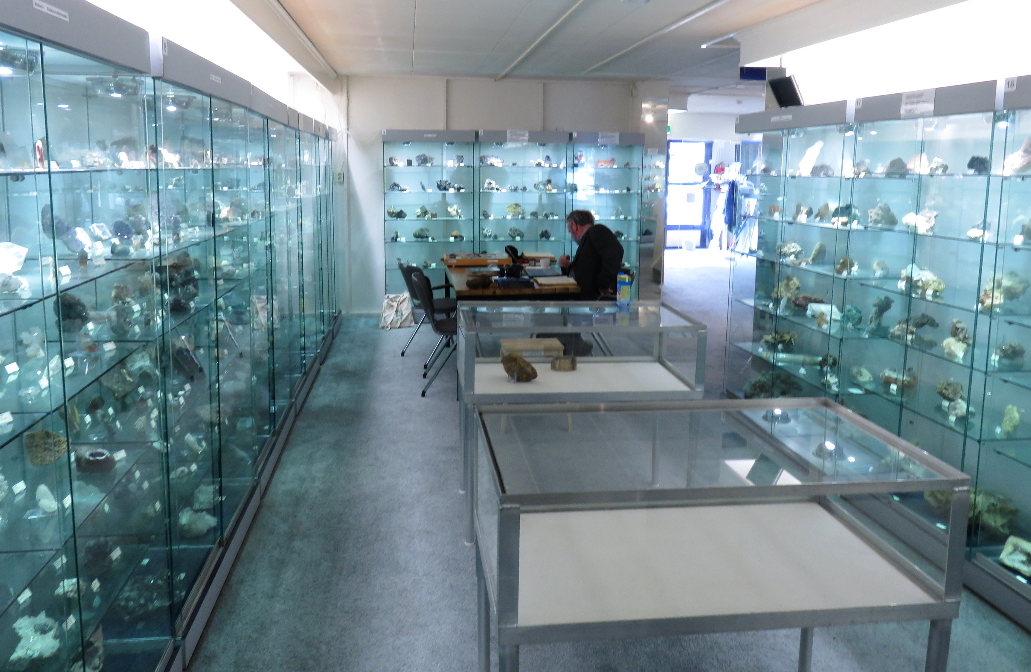 Exposition- and study room in Gelders Geologic Museum in Velp (NL)